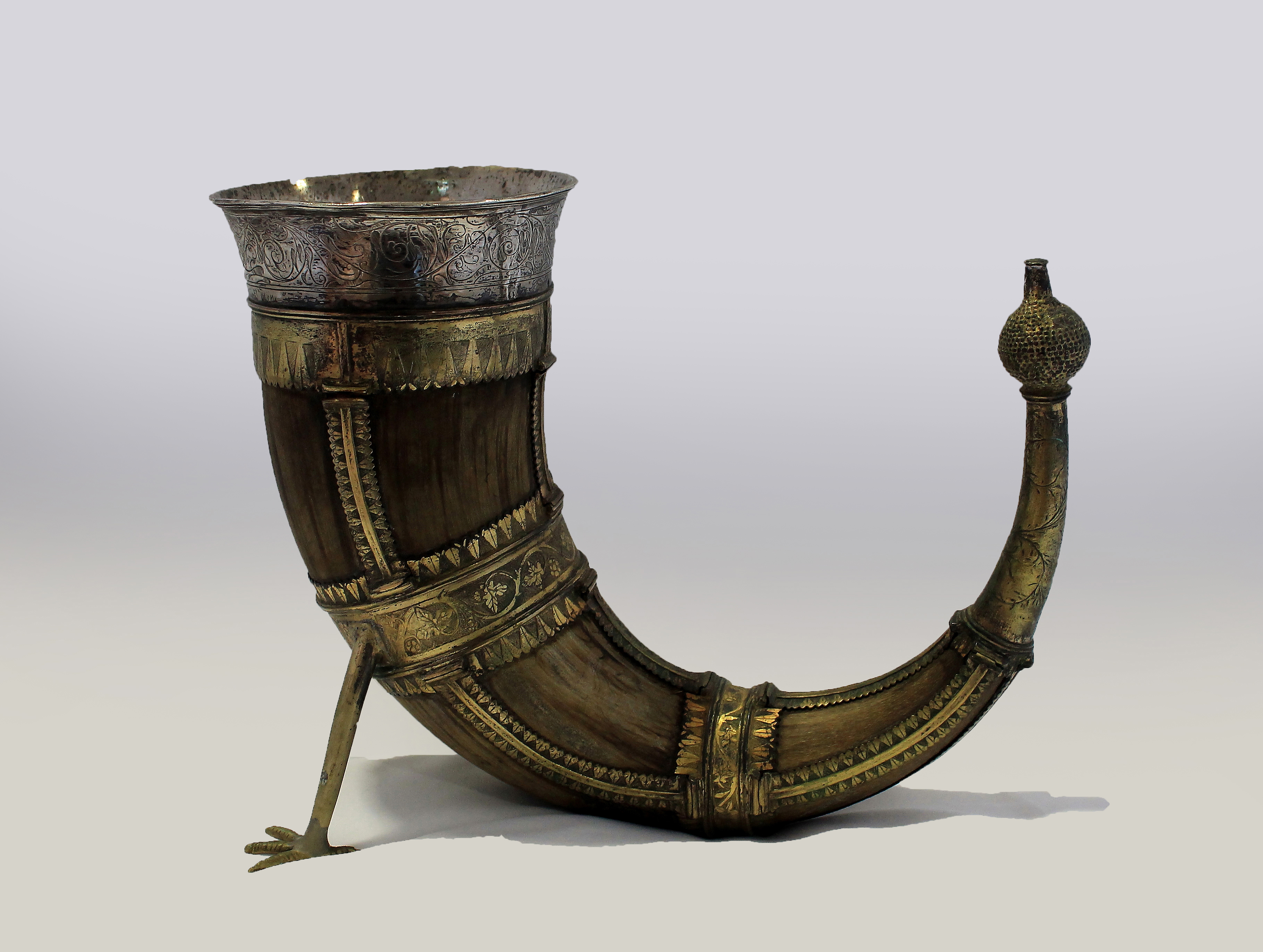 This drinking horn is typical of those made throughout Europe between the tenth and the seventeenth century. Most northern European versions of the fifteenth century and later have clawed feet and late Gothic-style ornament. This particular example (one of two in the Hunt Museum) is characteristic of the late medieval 'Griffin's Foot' or 'Dragon's Foot' style, in which the feet are separately made and soldered on. The animal horn is banded by silver-gilt mounts with stylized foliage, and the terminal has incised ornamentation of meandering foliage and a brambled knob. The rim, decorated with incised and hatched work, is riveted in place, and bears an inscription that may have been added in the sixteenth century. Its foliated ornament recalls that found on some of the Raeren jugs, which can also be seen in the museum.